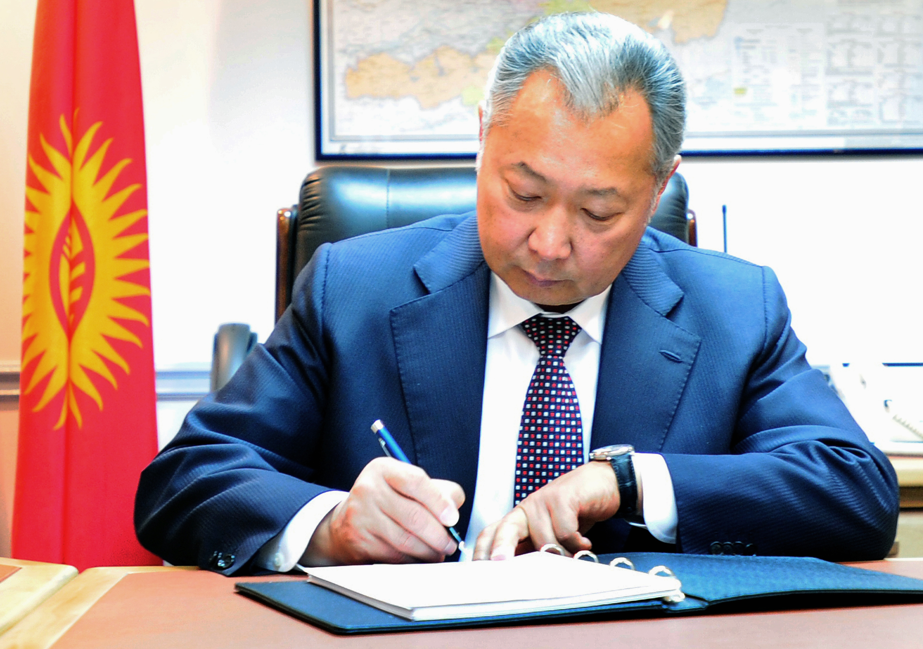 President of Kyrgyzstan, Kurmanbek Bakiyev, signs the guest book marking his visit to the Transit Center on September 11, 2009.